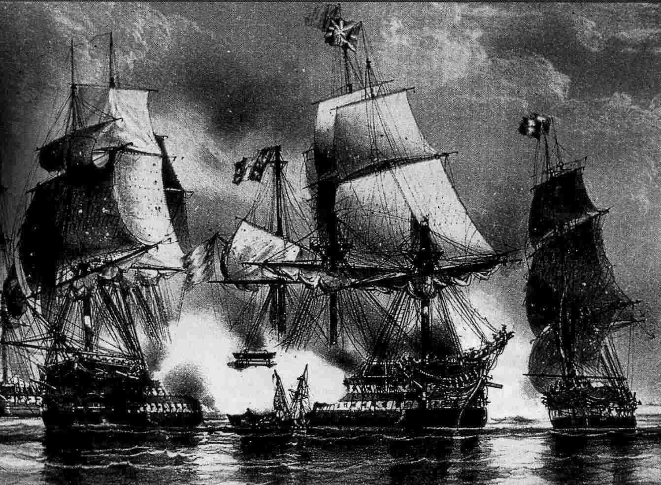 Fight of Ça Ira against HMS Bedford and HMS Captain, 14 March 1795 The website from which, this image was uploaded, claims it to be The capture of Ca-Ira by the Royal Navy at the Battle of Cape Noli in 1795 That website appears to have uploaded the image from where it is captioned: HMS Agamennon, on the left, opens fire on Ça Ira, in the center, and Censeur, on the right. It's implied that the second vessel (british unidentified) on the left is the Kingdom of Sicily's Tancredi (1789). Quote: The Agamennon, I do not know why nicknamed "Eggs and Bacon", which was a vessel with only two bridges and with lower guns by number and caliber to the Ira Ira, but together with the Tancredi it kept the French frigate under fire for over two hours centering it several times aft. Then the republican fleet, embarrassed by the maneuvers of Censeur who meanwhile took the Ça Ira semi-destroyed in tow, folded and immediately the allies began to pursue it. It's unknown where the image comes from, it may be, Le Haute-Dordogne et ses gabariers, Imprimerie de Crauffon, by Eusebé Bombal. Pub 1903. see this website